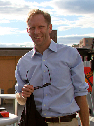 Henry Blodget, John Gapper Book Party, June 26, 2012, New York